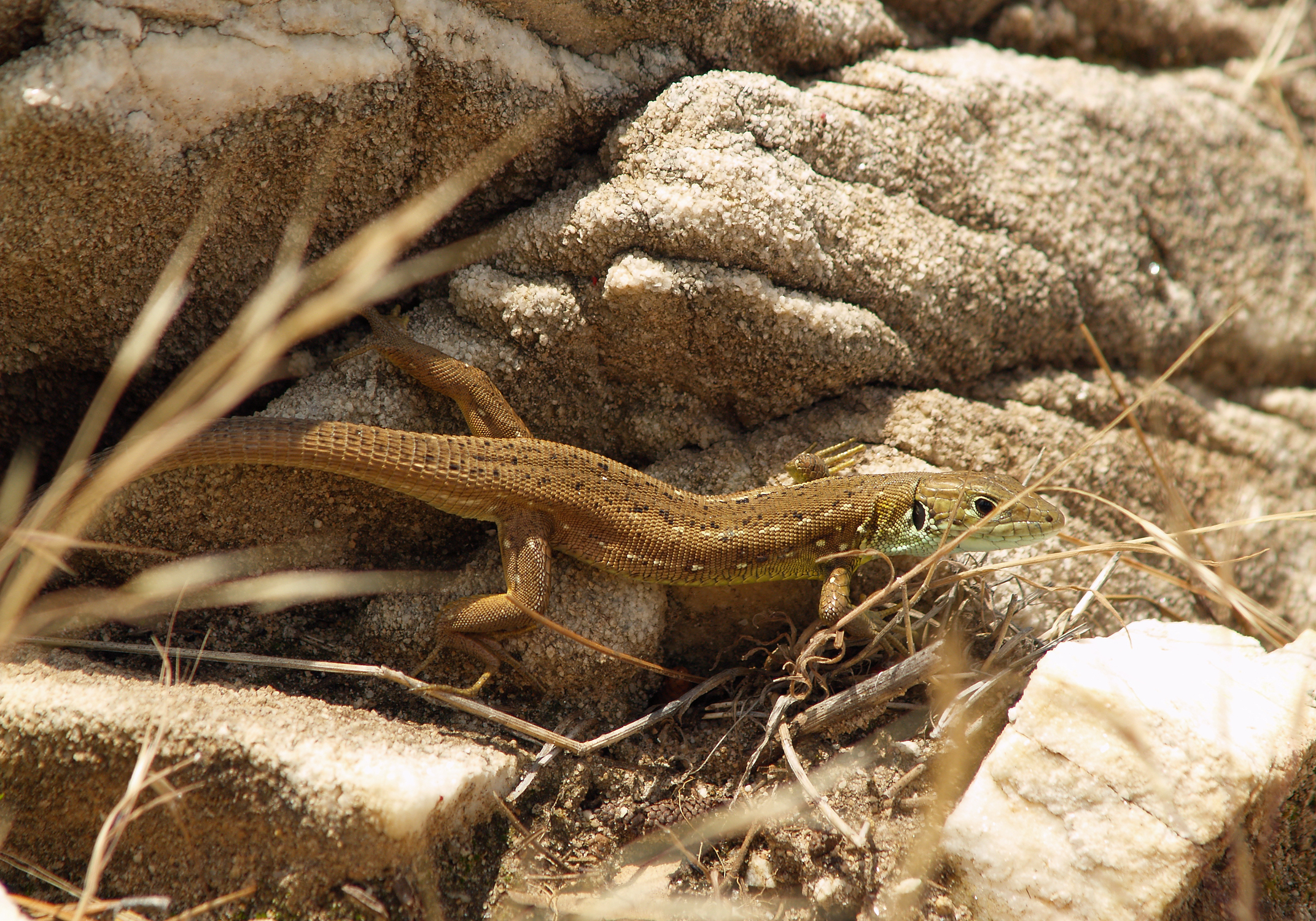 subadult European green lizard (Lacerta viridis), Thasos, Greece